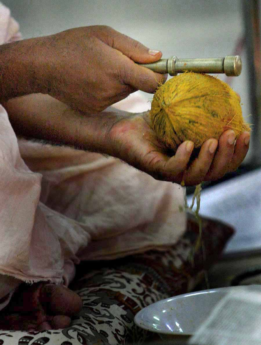 Jesus said: "My body is broken for you; My blood is poured out for you..." A contextualized version of the Lord's Supper found in the Christian faith uses the coconut, milk, and bananas as the elements of the sacrament of the Lord's Supper. Here the obseravance takes place, lead by a Christian swami.